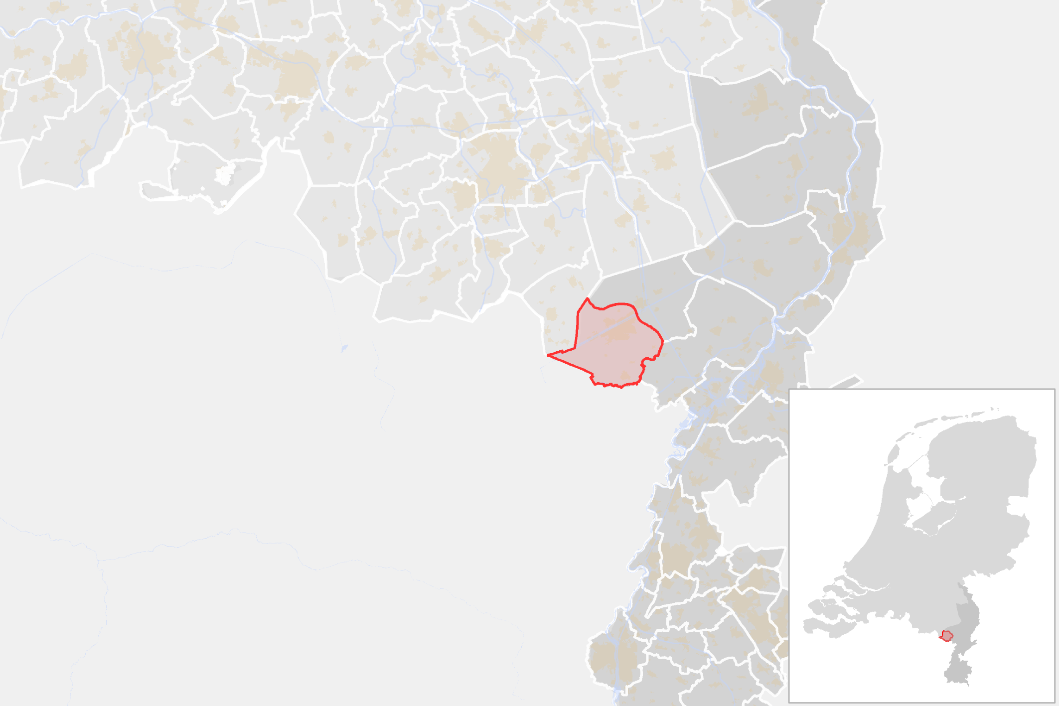 Locator map showing municipality boundary of one of the 390 Dutch municipalities (as of 2016)